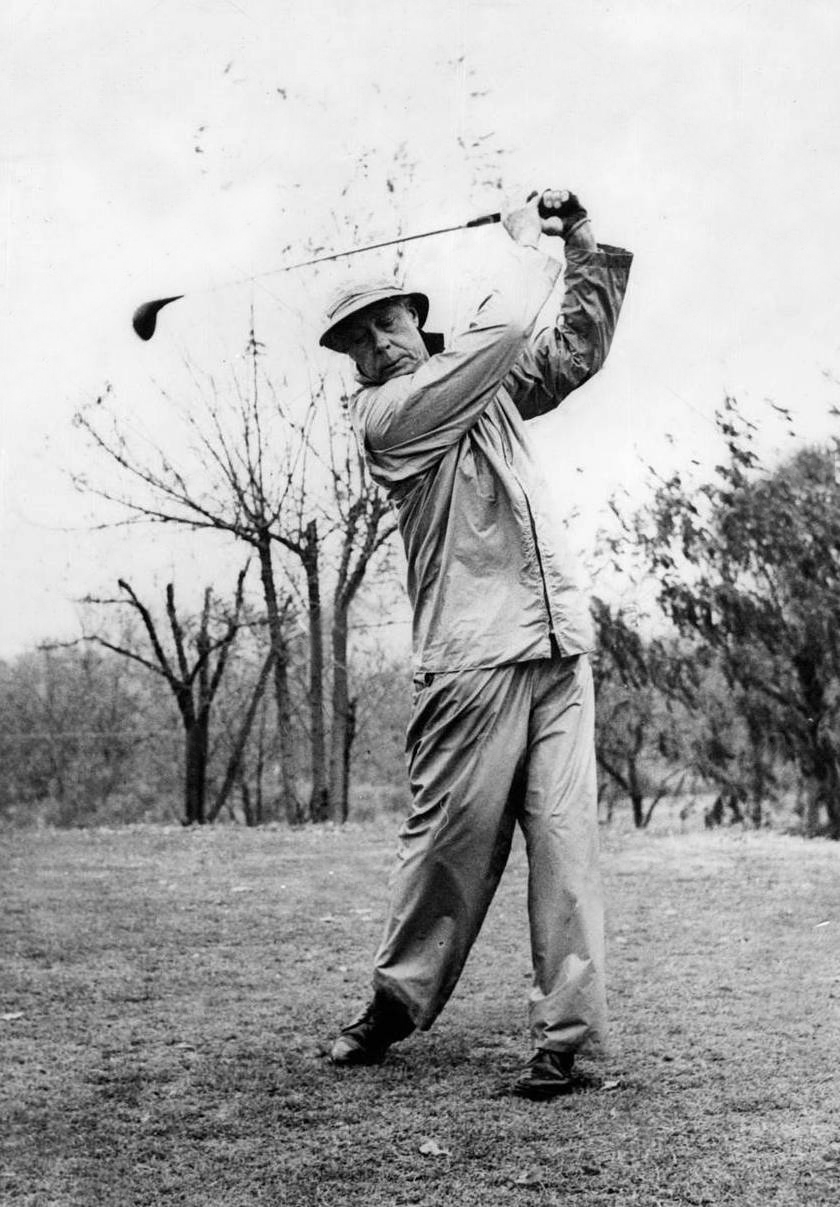 The Duke of Windsor about to make a drive at "the upper" course, winter 1960 (Real Club de la Puerta de Hierro).